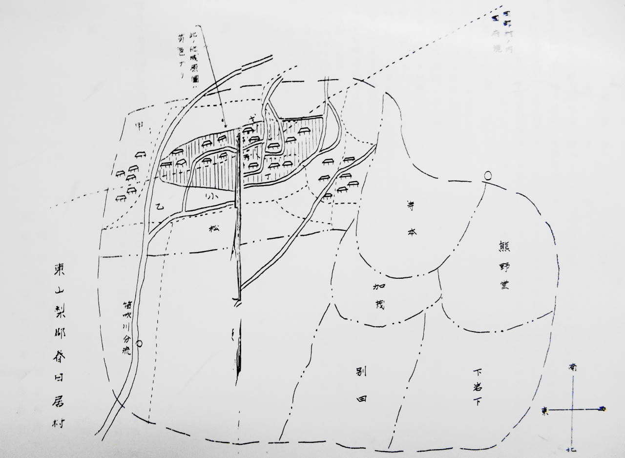 Map attached to the petition of 1881